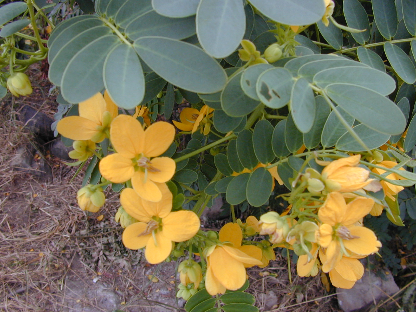 Senna surattensis (flowers and leaves). Location: Maui, West Maui